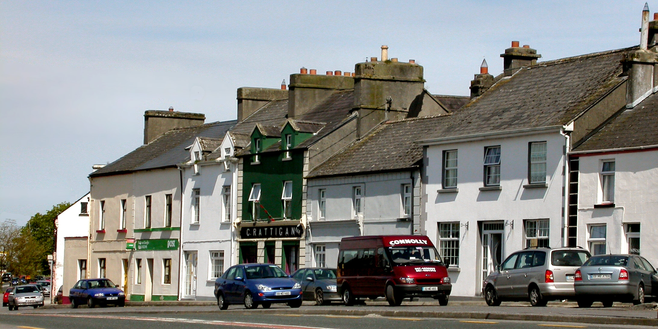 Priomhshraid Baile an Daighin